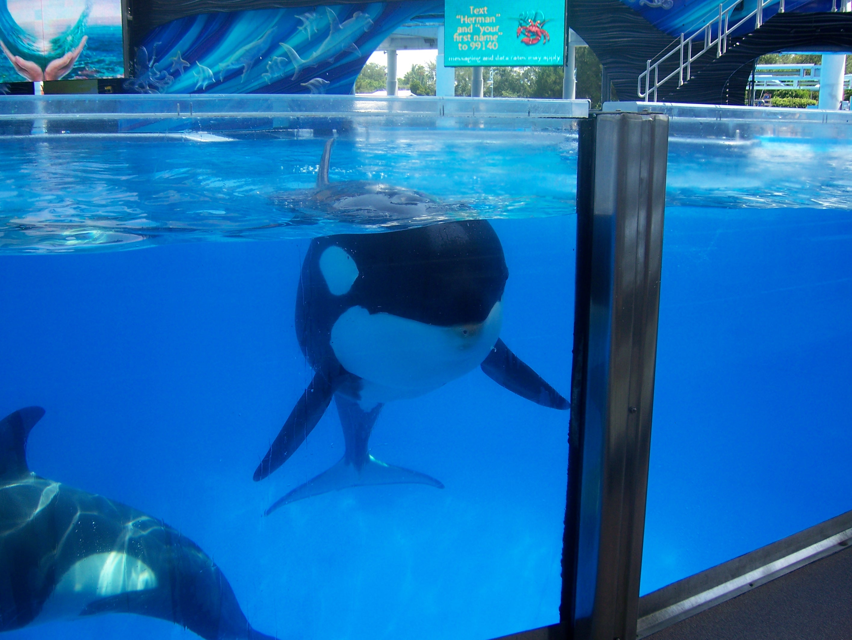 Trua is a 5 year old orca at Seaworld Orlando who is very playful and is a quick learner.